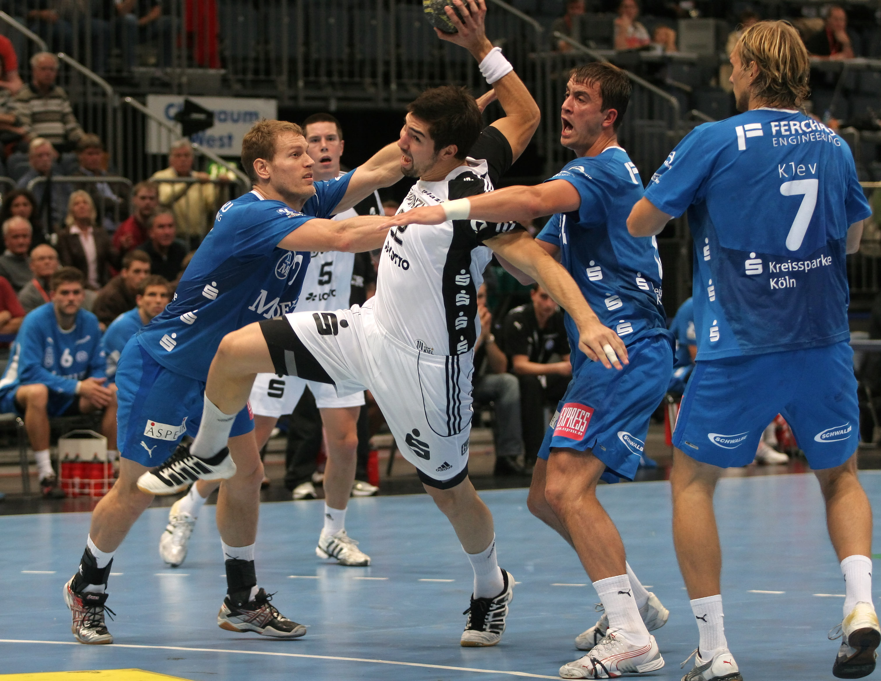 Nikola Karabatić, French handball player from THW Kiel